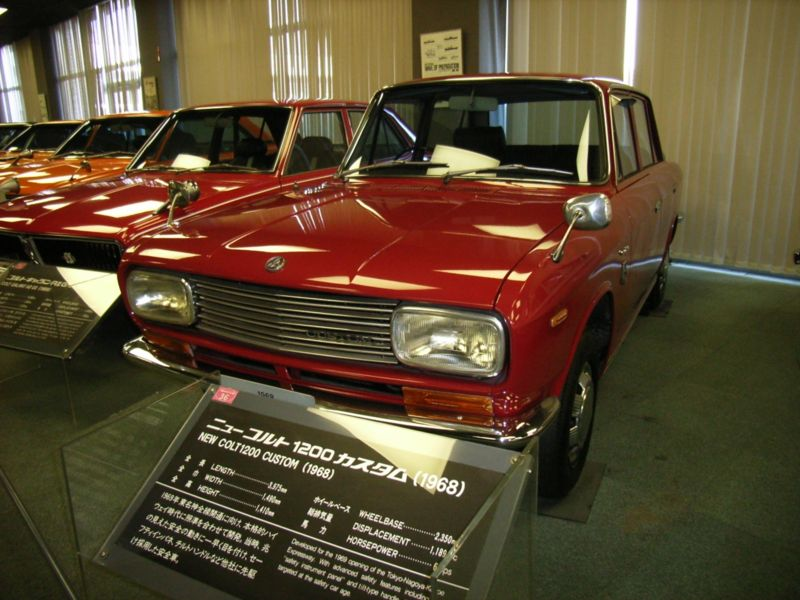 Mitsubishi New Colt 1200 Custom (1968)